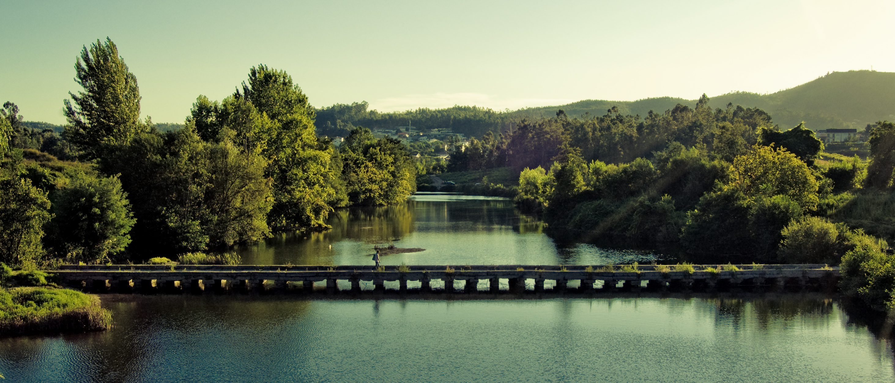 The Ponte das Taipas across the river Ave between Caldas das Taipas and São João de Ponte near Guimarães, Portugal. The bridge is classified as national monument.